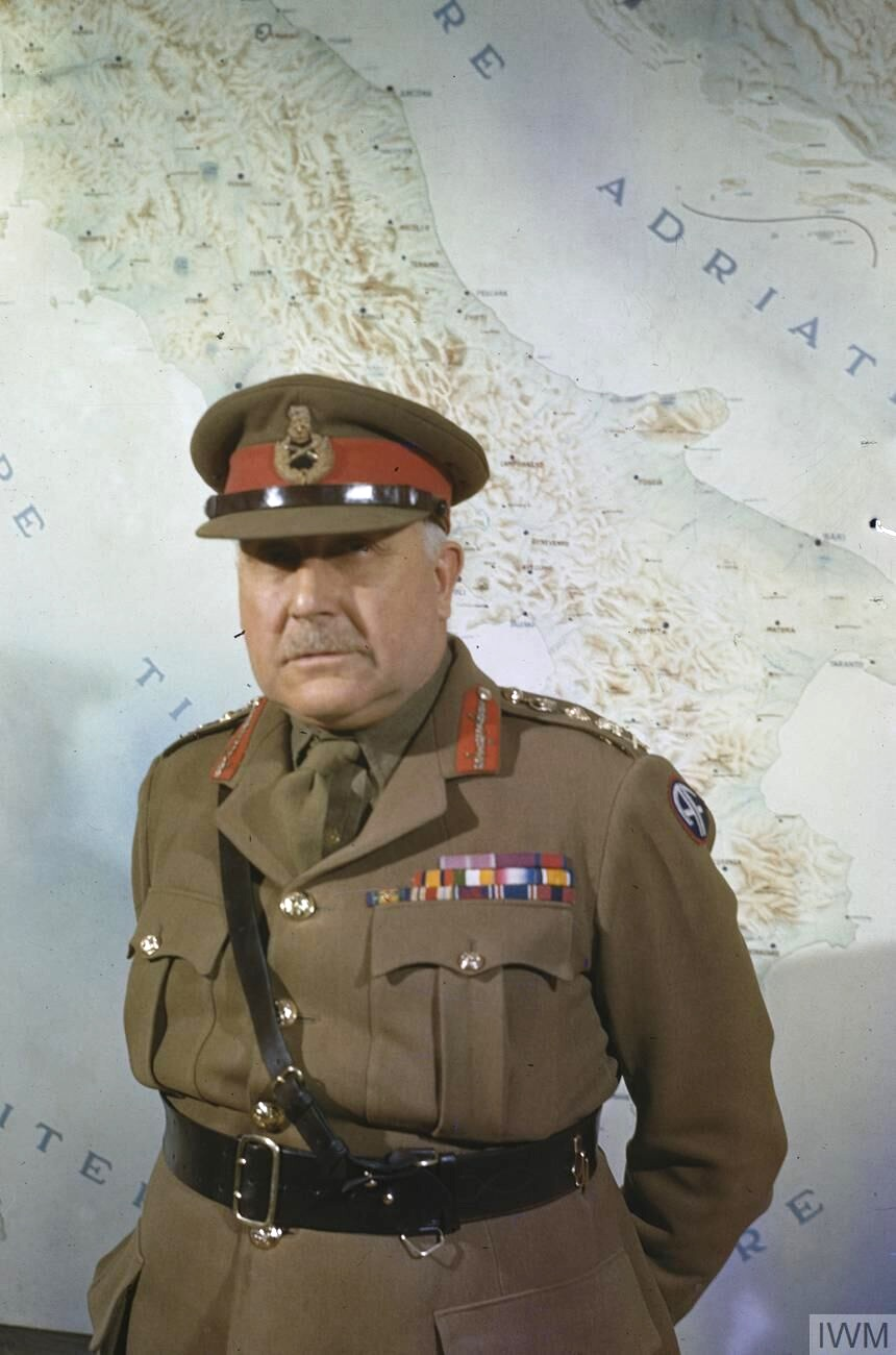 General Sir Henry Maitland Wilson, the Supreme Allied Commander, Mediterranean Theatre, in Italy, 30 April 1944 General Sir Maitland Wilson, Supreme Allied Commander, Mediterranean Theatre, standing in front of a map of Italy in Caserta.